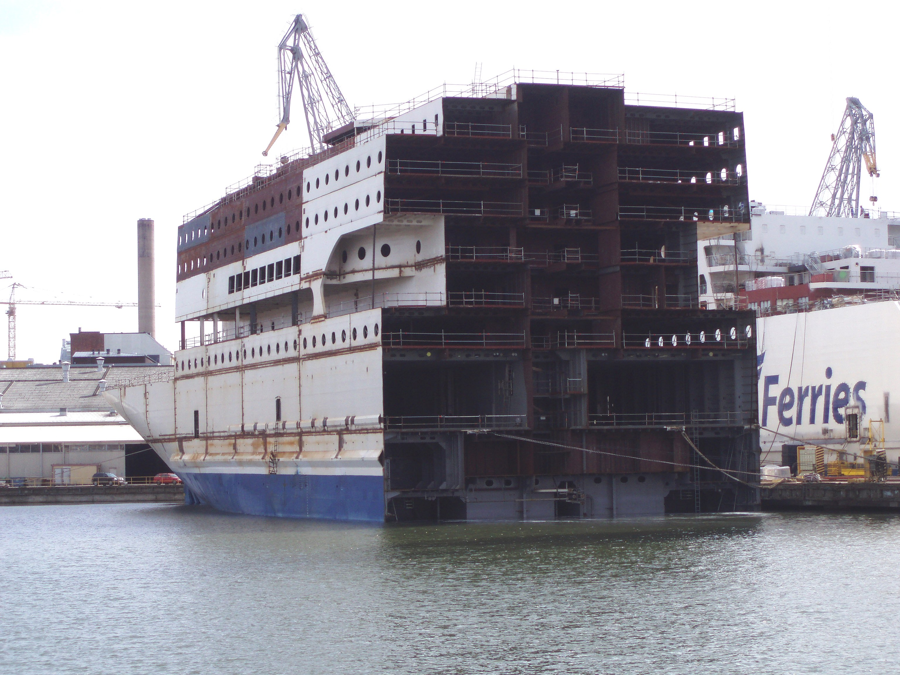 The forward part of Tallink's Galaxy-class M/S Baltic Princess (earlier called as NB 1361 or Galaxy II) was built at Aker Yards shipyard in France, from where it was towed to Hietalahti shipyard, Finland, where it will be completed. Picture taken and uploaded by Kalle Id on 19. 4. 2007.